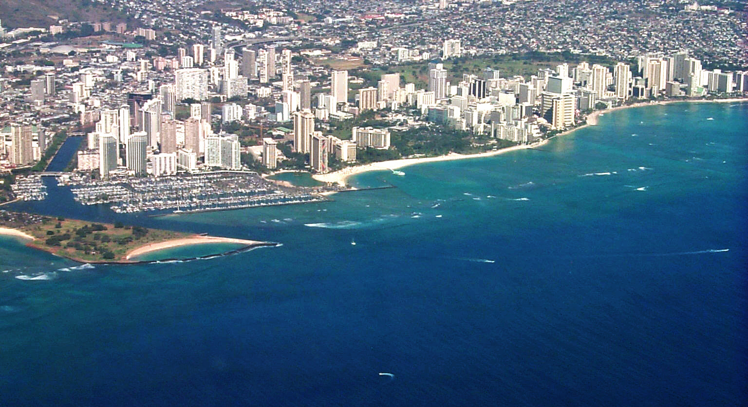 Aerial of Waikiki, Honolulu, Hawaii